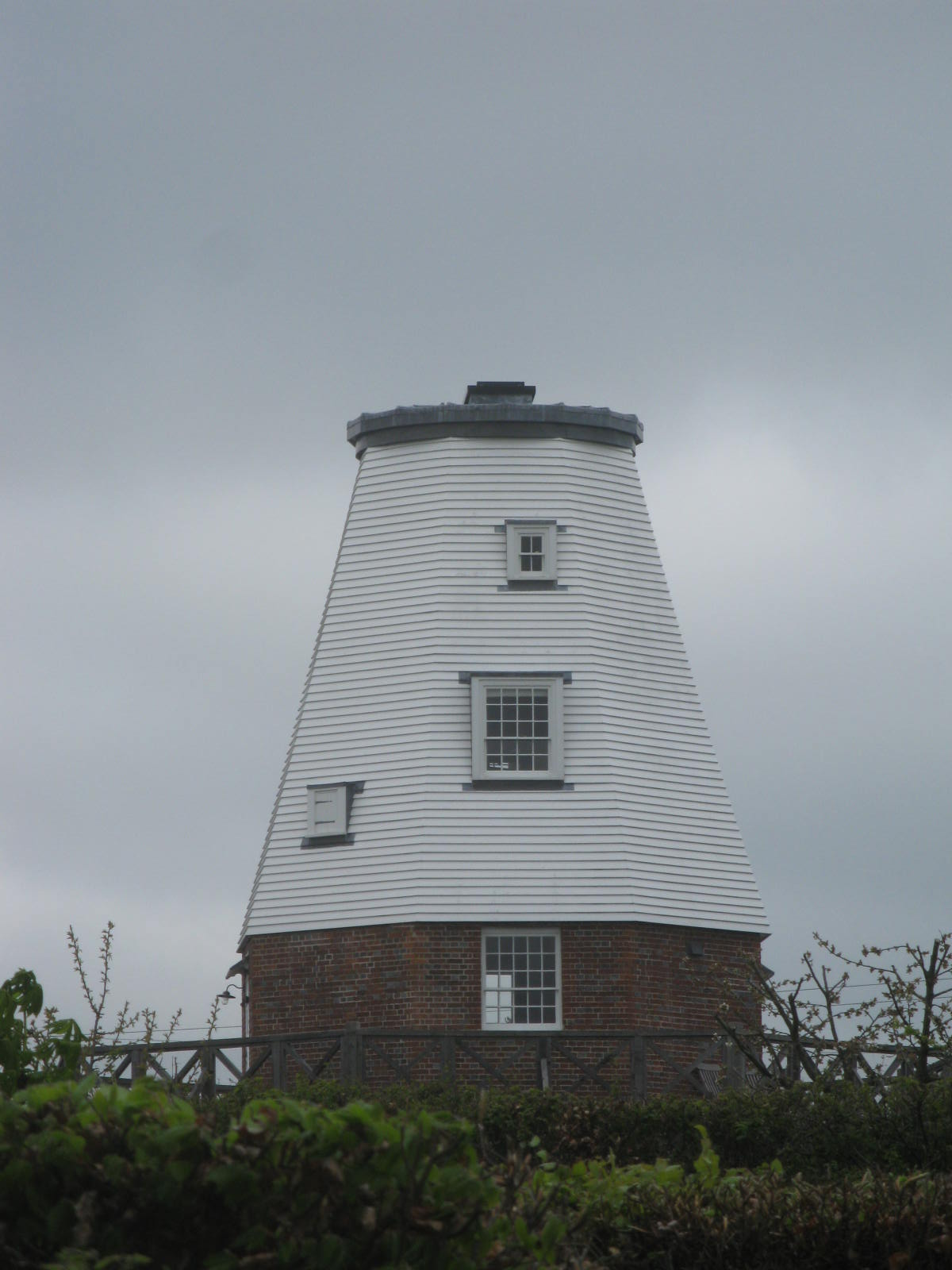 A photograph showing Beacon Mill, Benenden as converted.